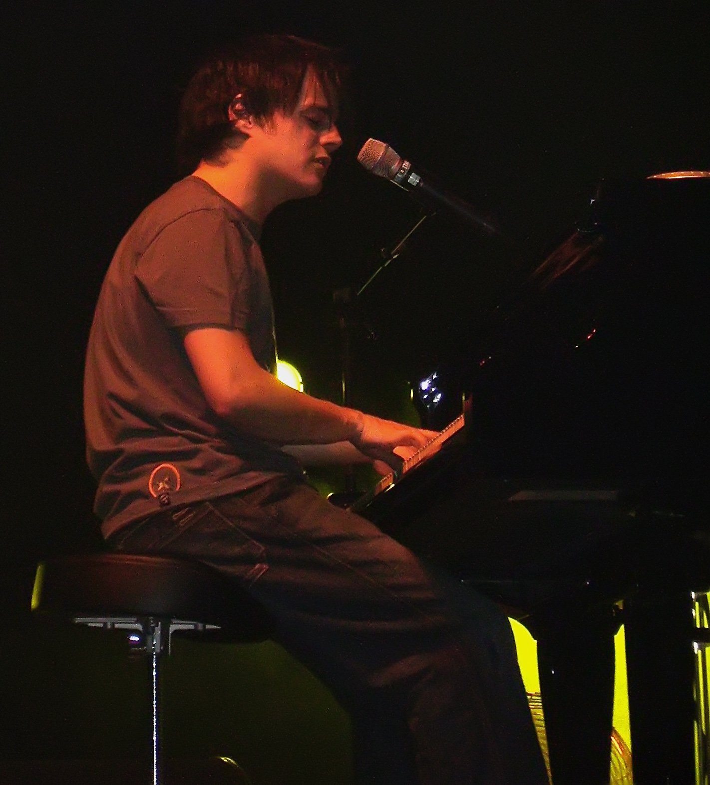 Jamie Cullum on stage in Vienna in January 2006. Photo taken by User.